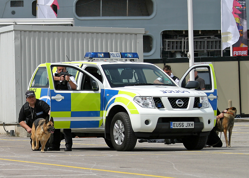 Ministry of Defense Police Nissan Pathfinder K-9